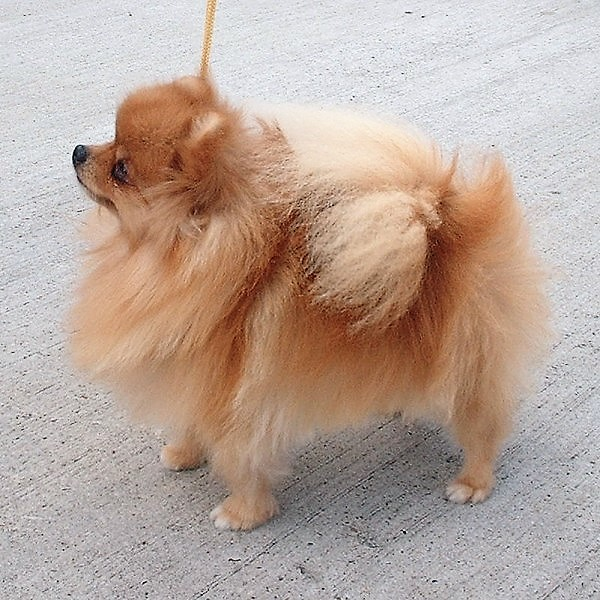 Veltuds Scarlet Affair. An orange Pomeranian owned by Miss A Samuels. Photo by sannse at the City of Birmingham Championship Dog Show, 29th August 2003